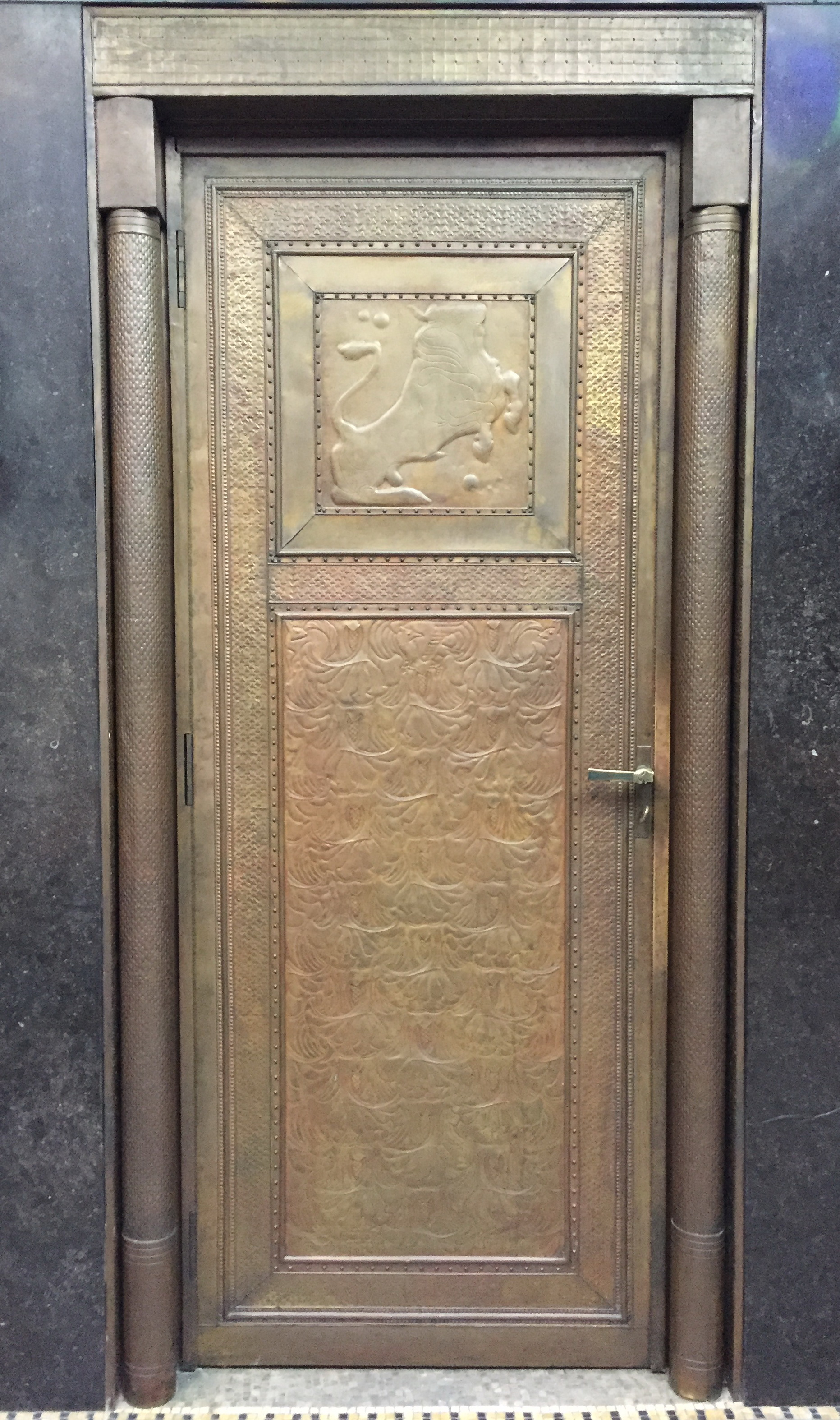 Neuchâtel, State Observatory, hall of the Pavillon Hirsch, Art nouveau ornament